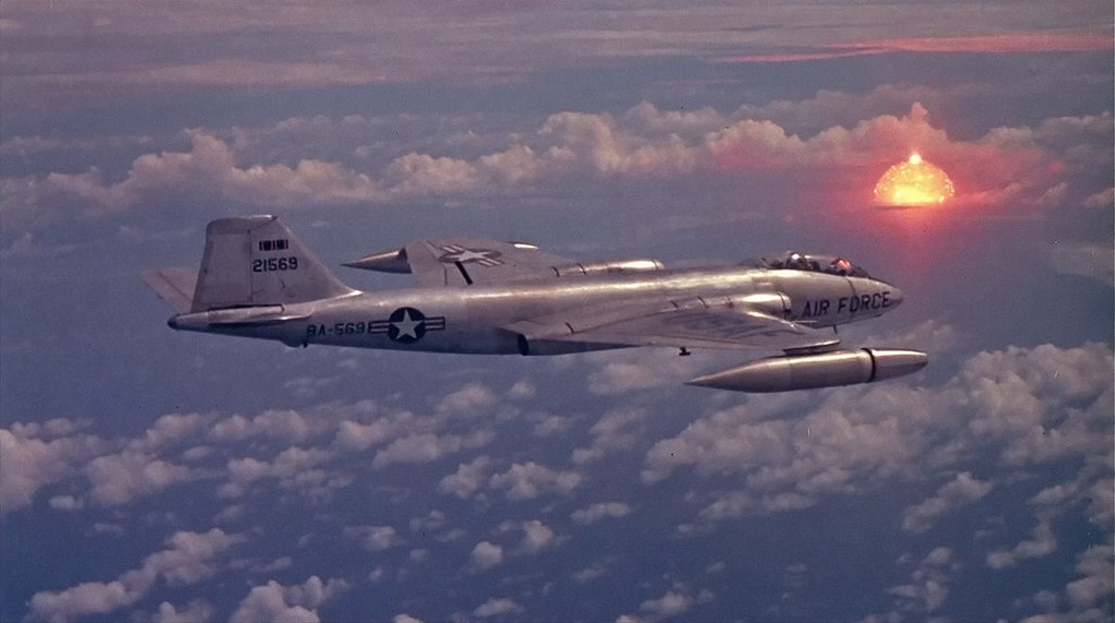 Operation Hardtack - Poplar shot. The plane is a Martin RB-57D.